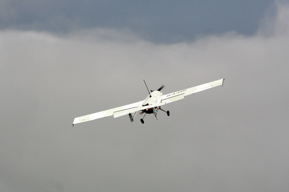 The S4 Ehecatl in flight